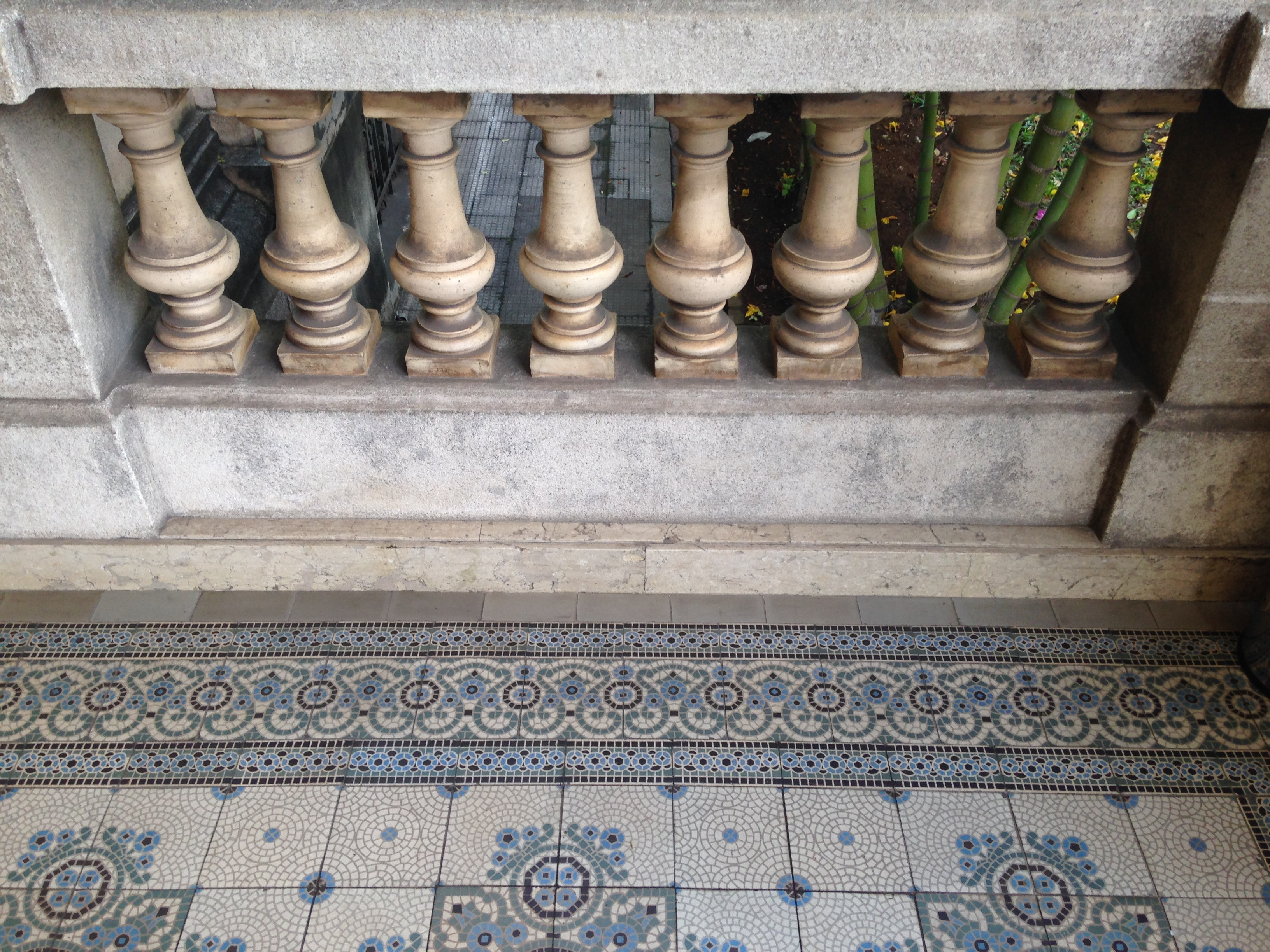 Detalhamento arquitetônico no hall da entrada lateral da Casa das Rosas.